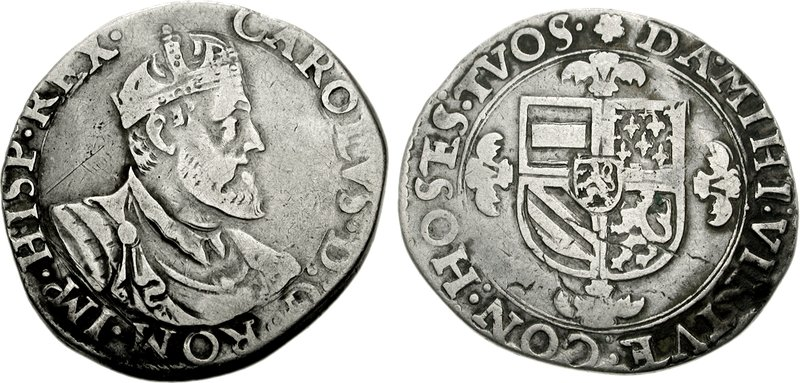 Low Countries, Holland. Karel II (Keizer Karel V). 1515-1555. AR Florin (20.76 g, 1h). Struck 1553-1556. Crowned, draped, and armored bust right Coat-of-arms over cross fleurée. (see File:Armoiries Philippe Ier de Habsbourg.png) G&H 188-6. Near VF, toned, a few minor scratches.